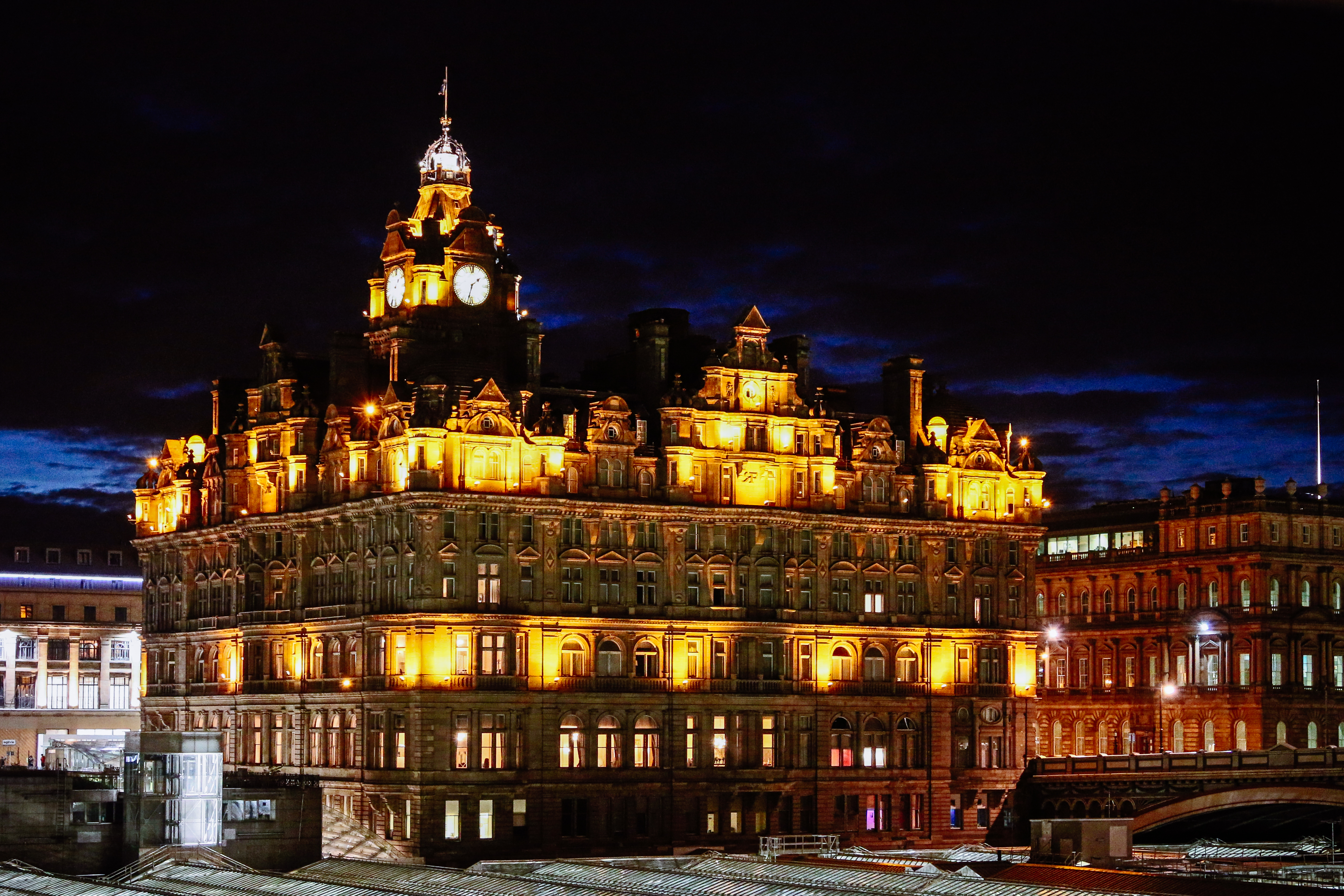 The Balmoral Hotel at night in Edinburgh, Scotland.